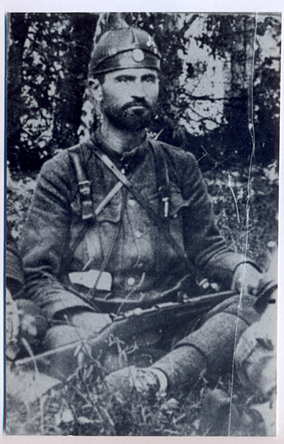 Portrait of Todor Alexandrov.